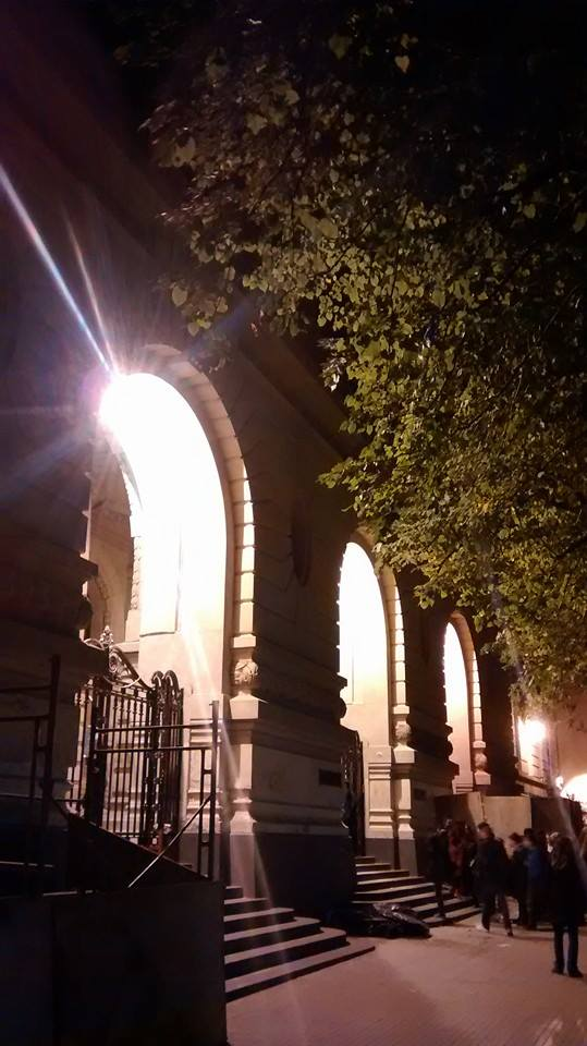 Argentina has no "freedom of panorama" provision in its copyright law, neither are buildings mentioned among works to which copyright apply. At least some think there is de facto freedom of panorama in Argentina regarding buildings: It is uncontroversially accepted that buildings can be reproduced by paintings or photographs, without this reproduction infringing copyright. “Se ha admitido pacificamente que los edificios puedan ser reproducidos mediante pinturas o fotografías, sin estimarse que esta reproducción lesione los derechos de autor.” — Dr. Emery, Miguel Angel (profesor of Intellectual property law in Argentina), Propiedad Intelectual, Astrea Editors 4th. edition ISBN 9789505085231. p.40 op cit Copyright law of Argentina (in Spanish) See Commons:Freedom of Panorama#Argentina for more information.